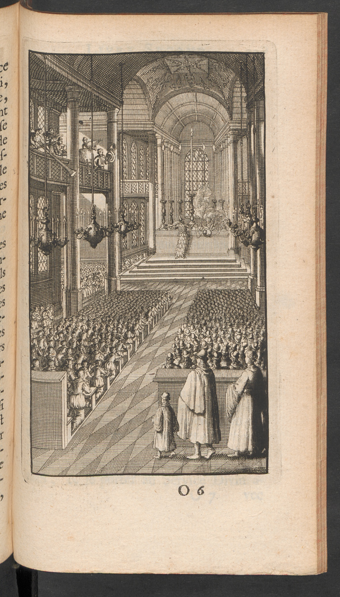 Engraving by François van Bleyswik for Th. More's Utopia translated in french by N. Gueudeville in 1715 (ETH-Bibliothek Zürich). This engraving (page 323) represents how goes a ceremony in a church of Utopia. We can see tant woman are seated on the left and men on the right. A priest conducts the ceremony and utopians citizens play music.